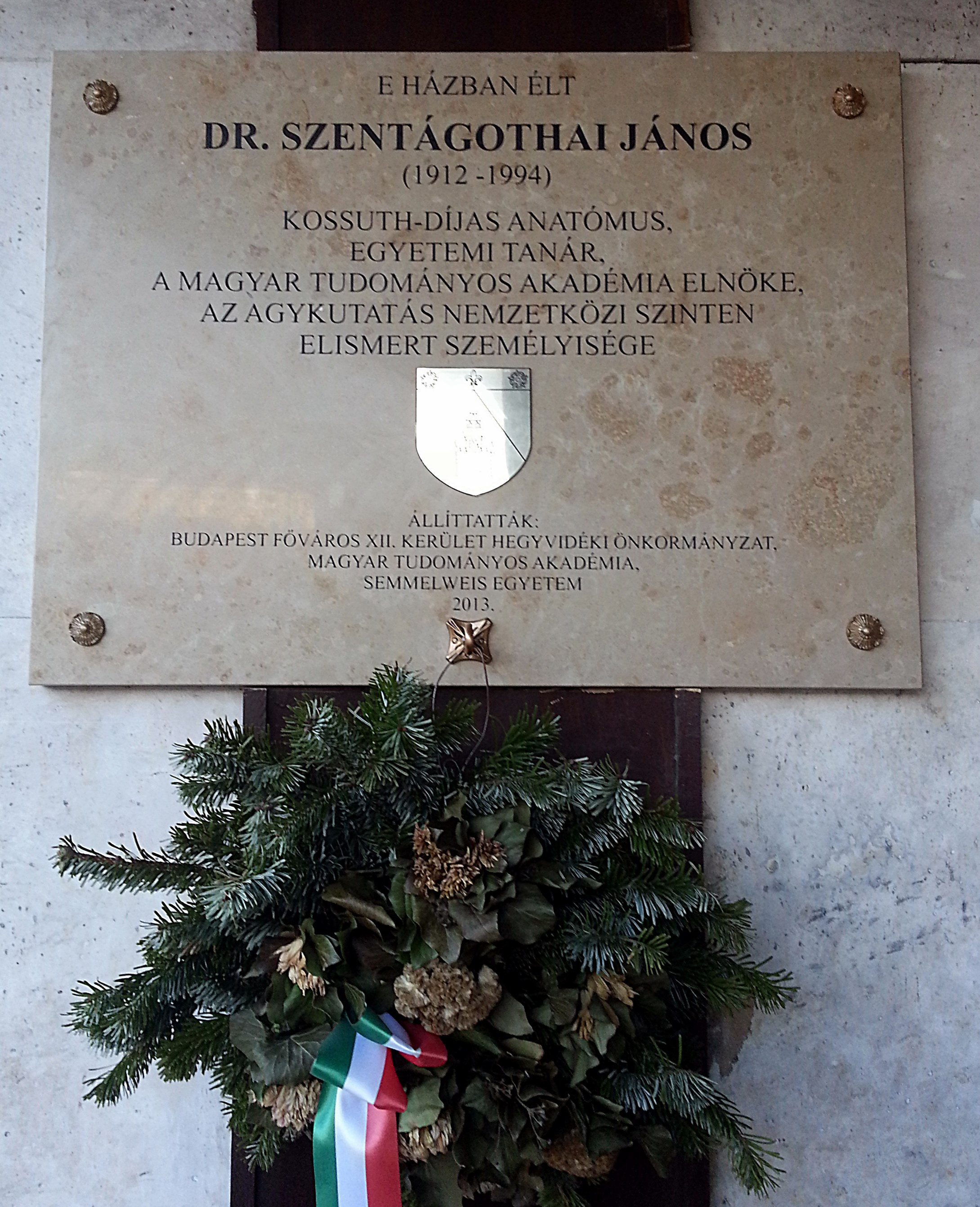 János Szentágothai commemorative plaque in Budapest District XII, Square of Magyar jakobinusok No 2-3